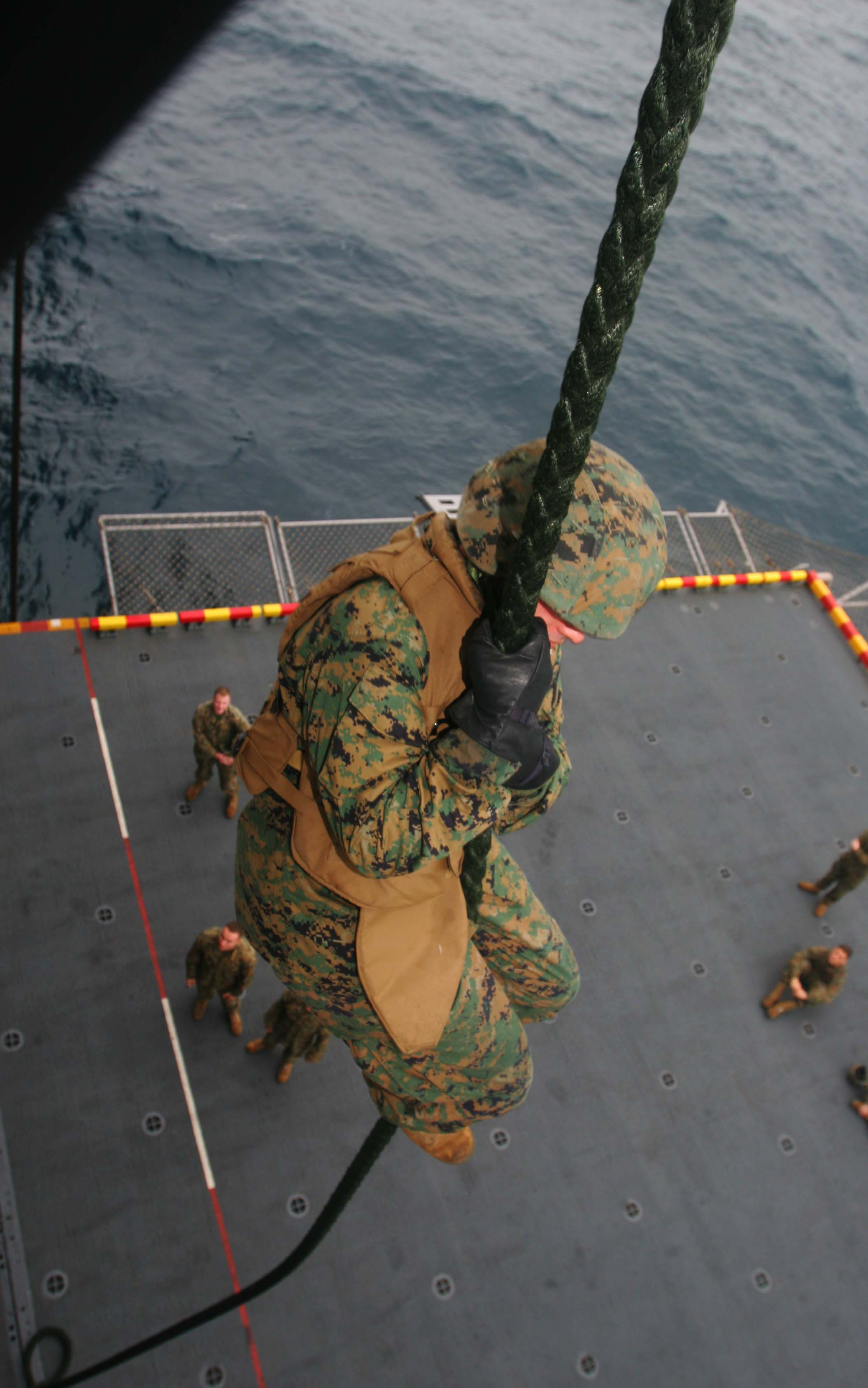 U.S. Marines with the 31st Marine Expeditionary Unit participate in a fast rope exercise moving out the back of a CH-46E Sea Knight helicopter and onto the flight deck of the USS Essex (LHD 2) on May 18, 2008.